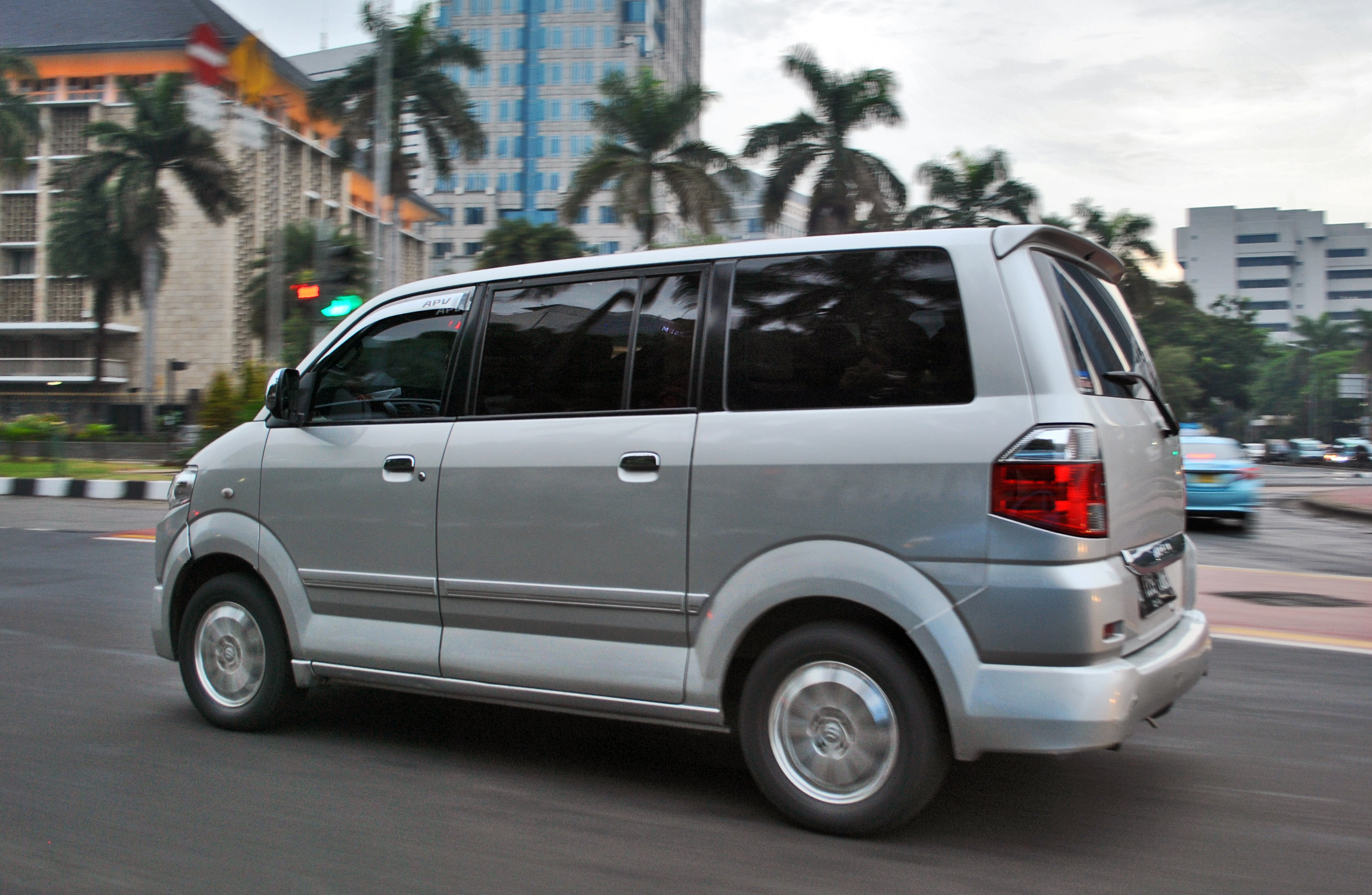 Side back view of Suzuki APV Arena in use at Thamrin, Jakarta, Indonesia. Chuckle to realise no Suzuki or APV badges are seen.